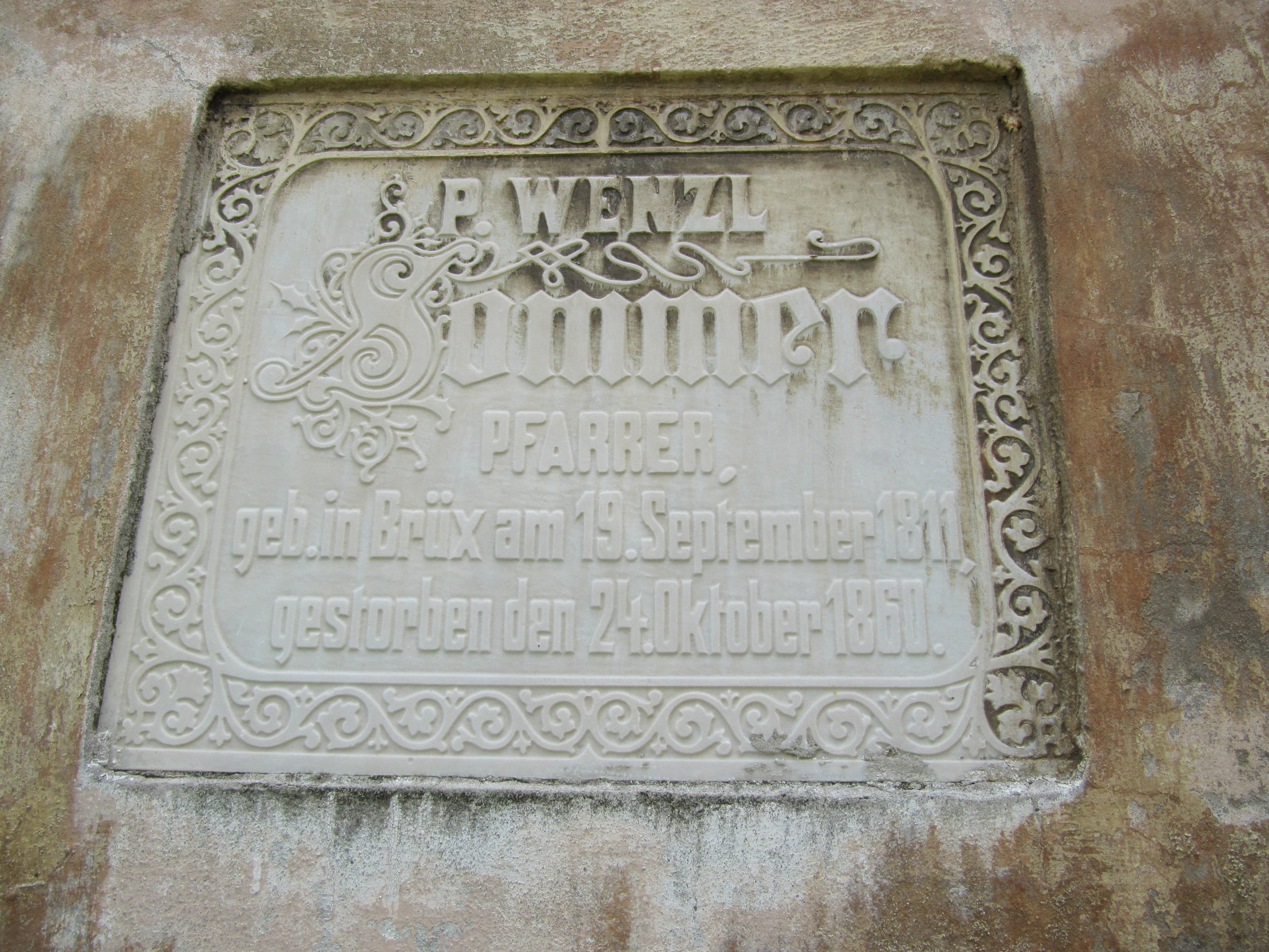 Staré Křečany in Děčín District, Czech Republic. Interior of the church of Saint John of Nepomuk, plaque.